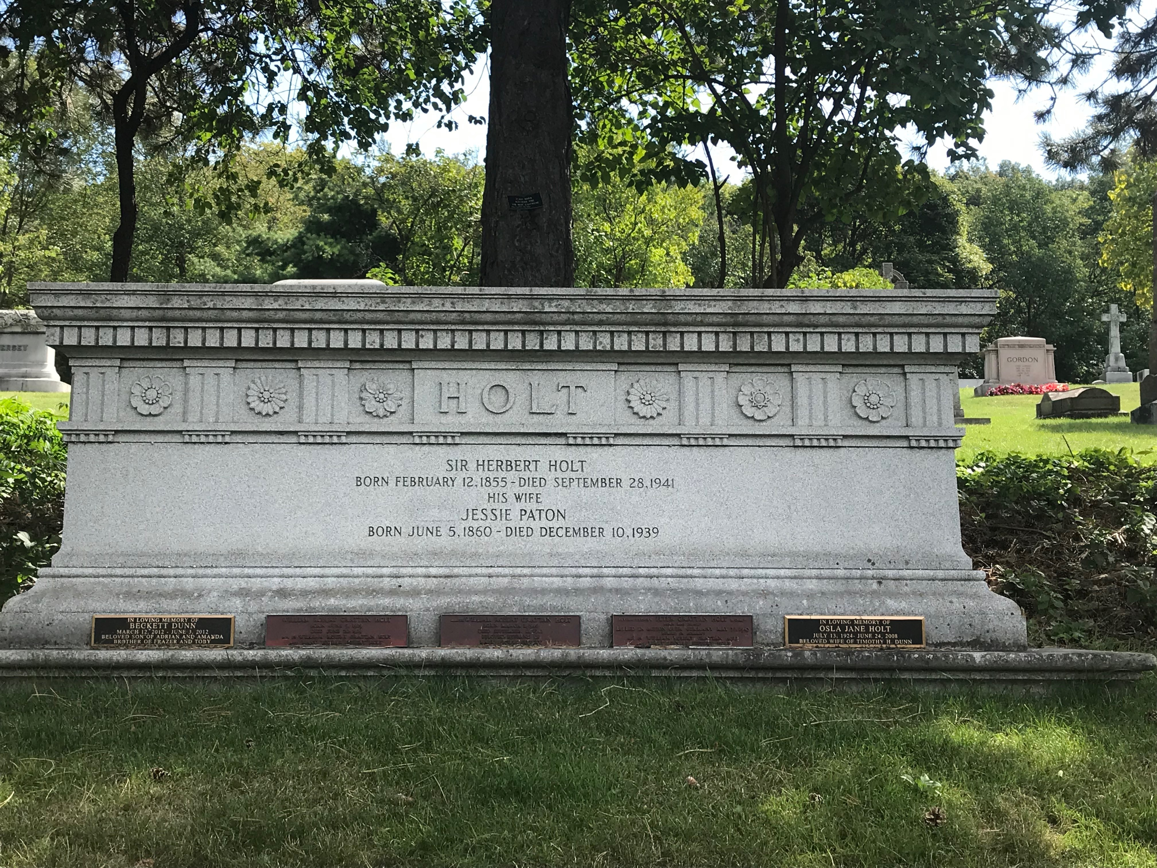 Funeral monument of President of the Royal Bank of Canada Herbert Holt. Mount Royal Cemetery, Montreal.